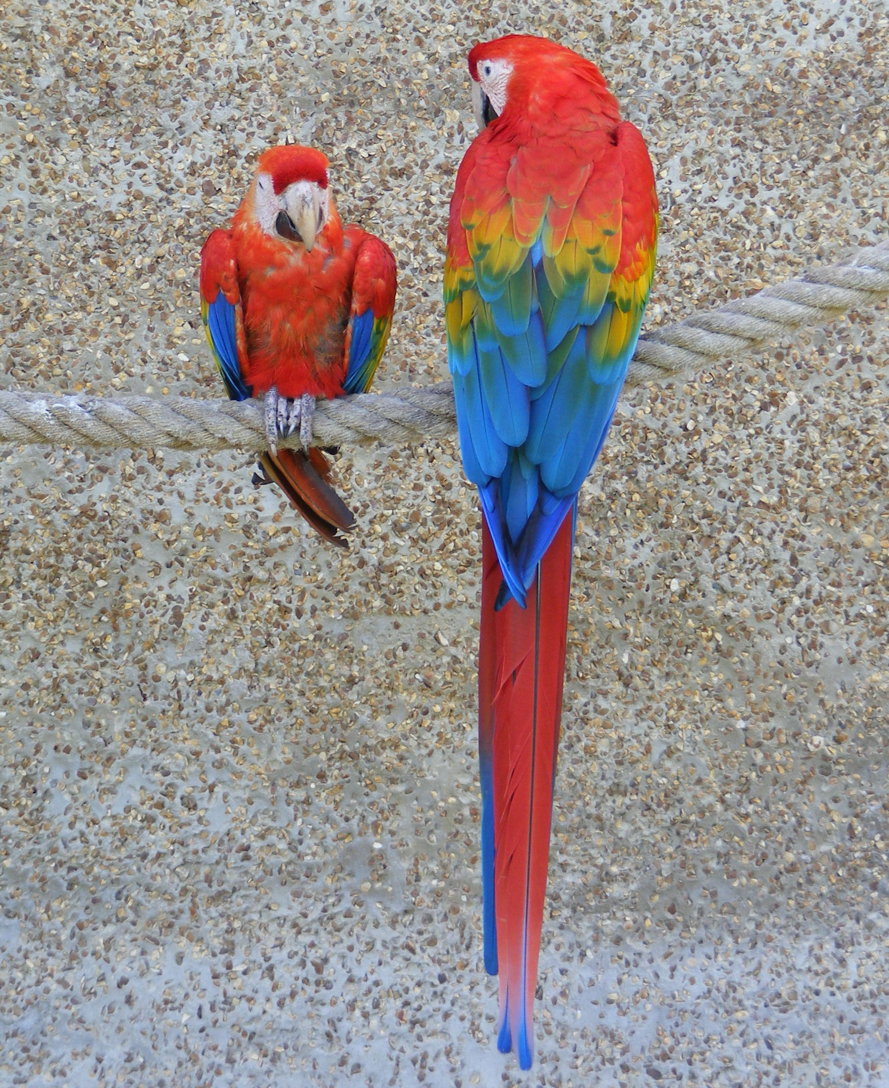 Scarlet Macaws at Seaview Wildlife Encounter, Seaview, Isle of Wight, UK.